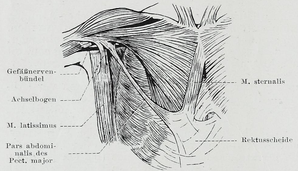 An anatomical illustration from the 1921 German edition of Anatomie des Menschen: ein Lehrbuch für Studierende und Ärzte with latin terminology.